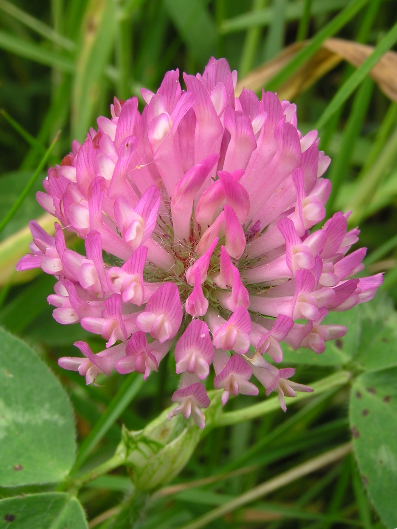 Red clover (Trifolium pratense), Wellington, New Zealand